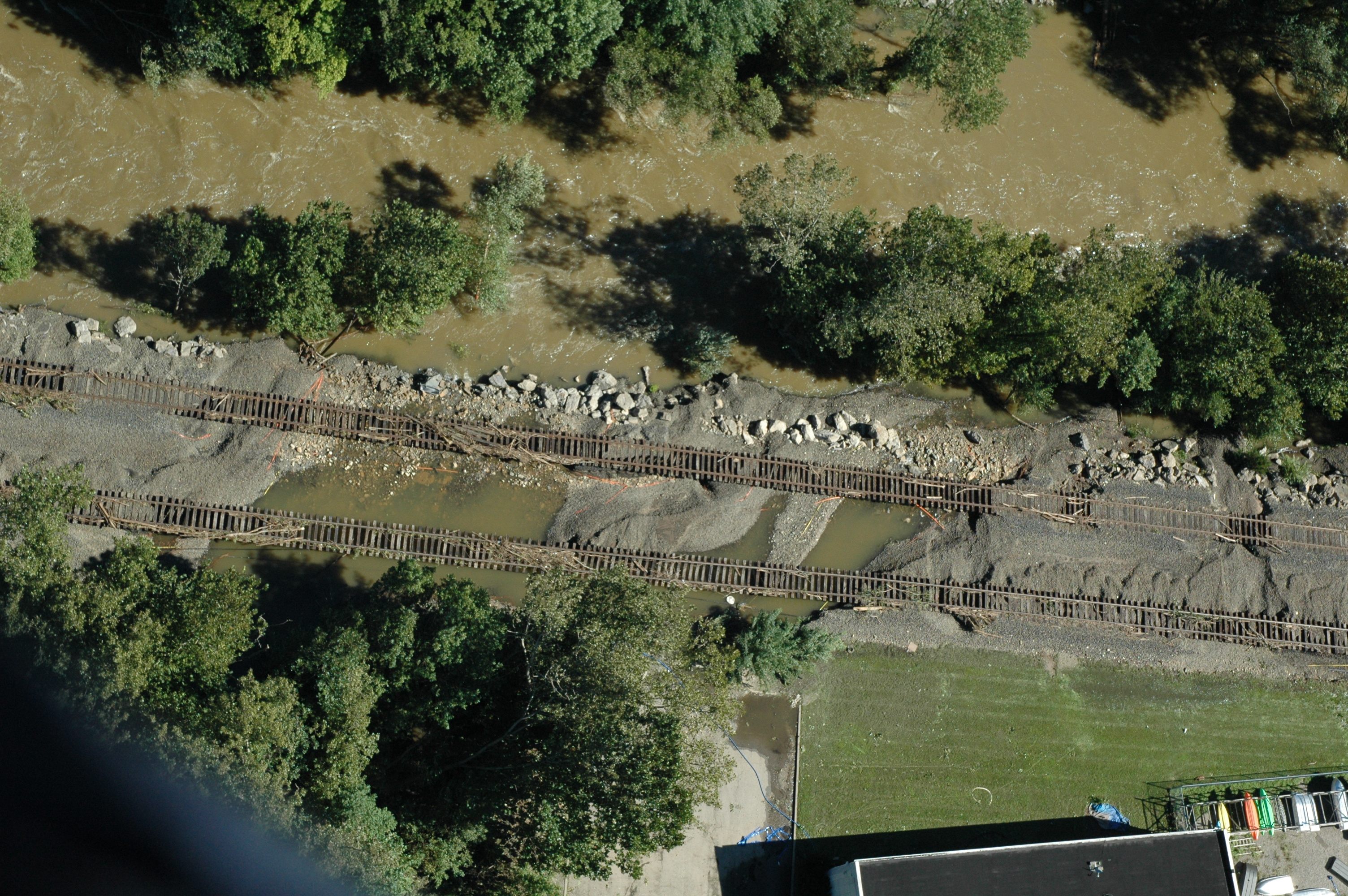 One of many washouts along the Port Jervis Line after Hurricane Irene. This one is south of Harriman. Photo by Metropolitan Transportation Authority.